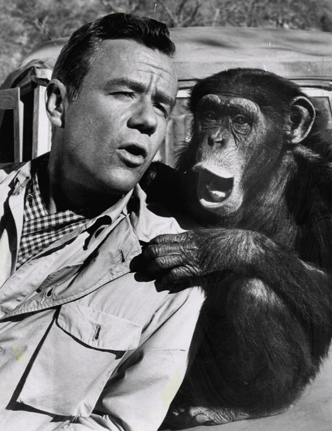 Photo of Marshall Thompson as Dr. Tracy and Judy from the television program Daktari.